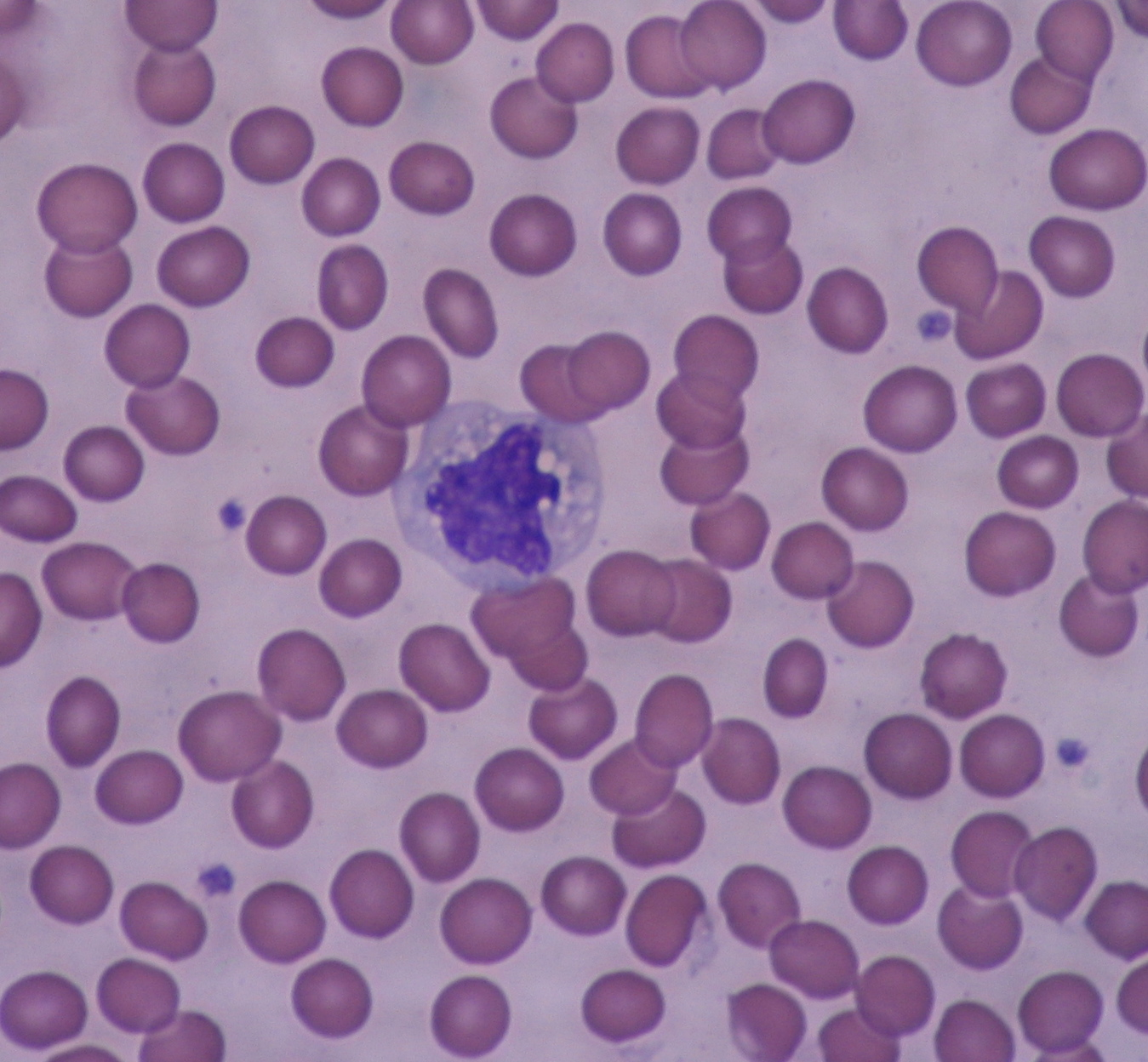 (40x), red blood cells surrounging it.